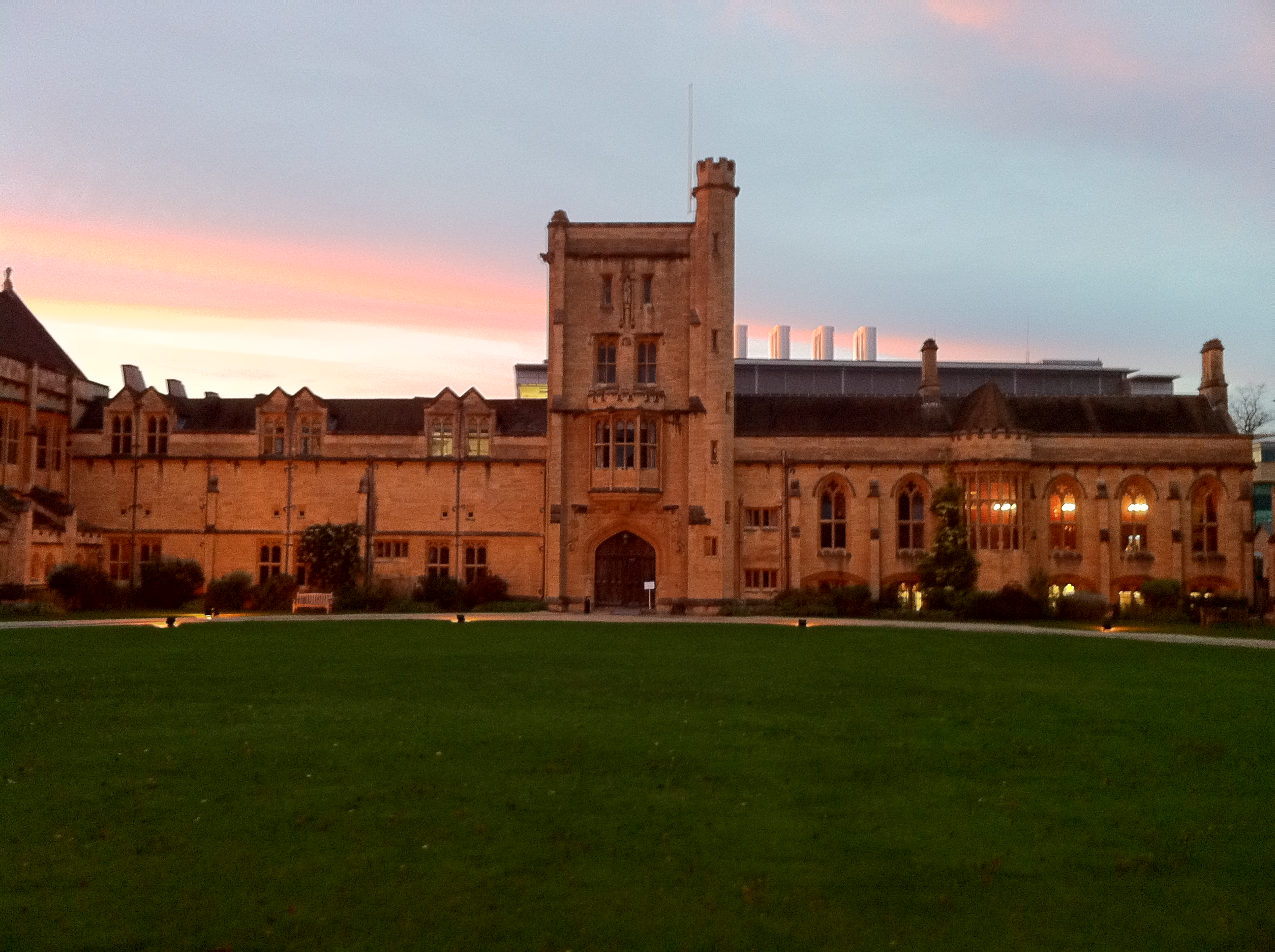 The main building of Mansfield College, Oxford